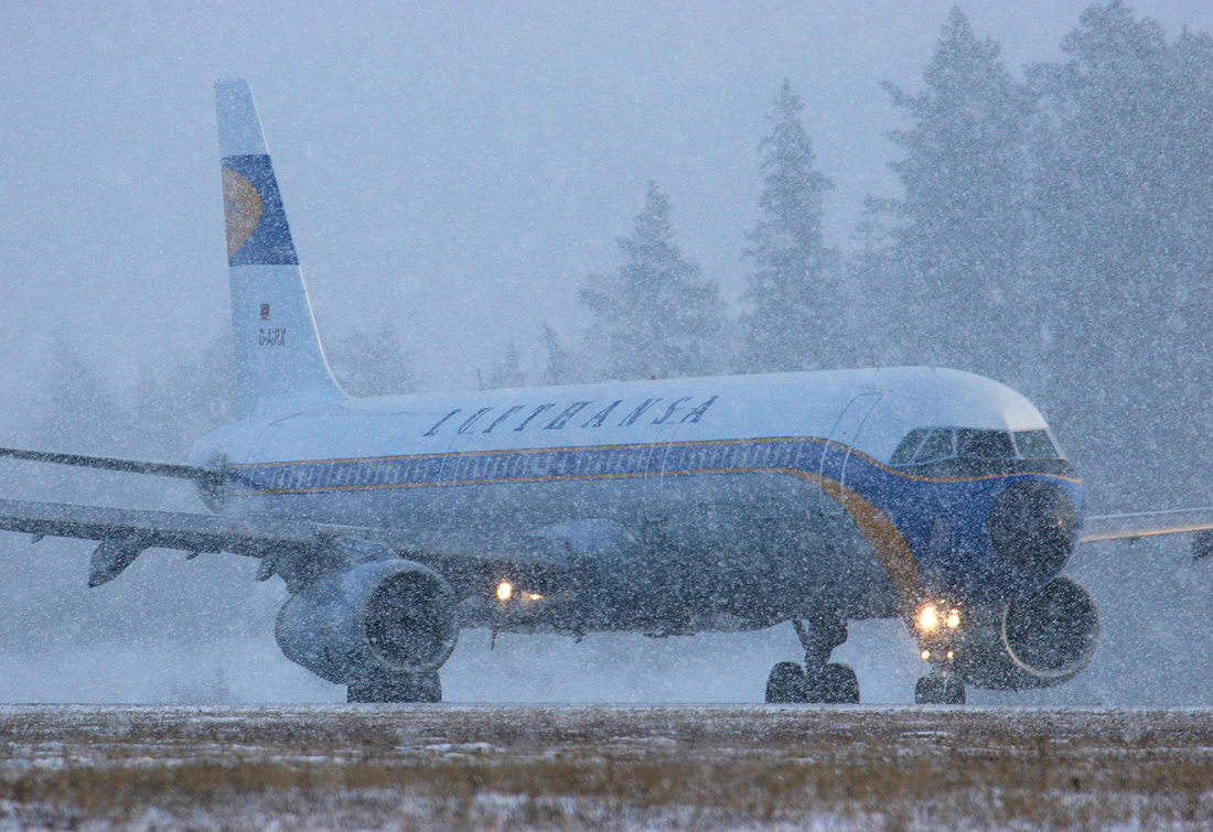 Lufthansa retro design jet (D-AIRX) in snow conditions at Stockholm Arlanda to describe winter operations